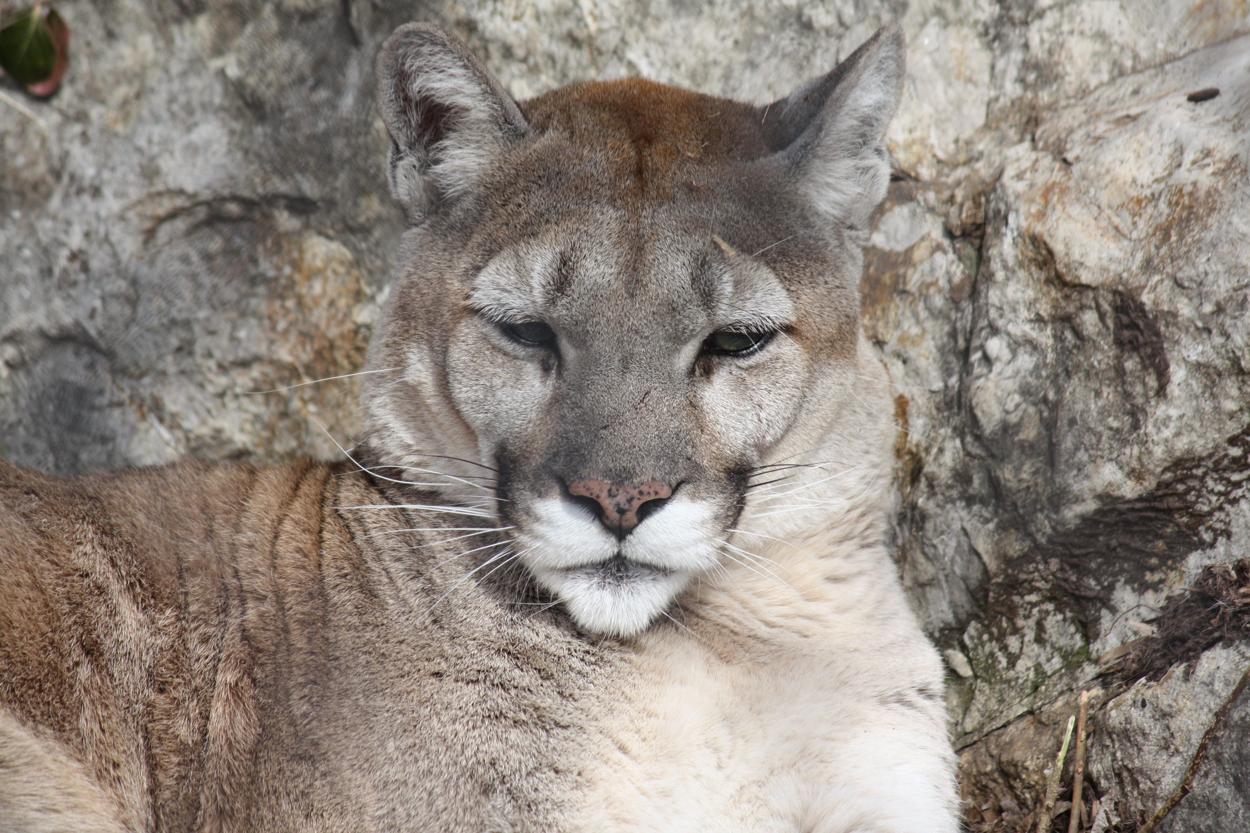 Puma at the Louisville Zoo